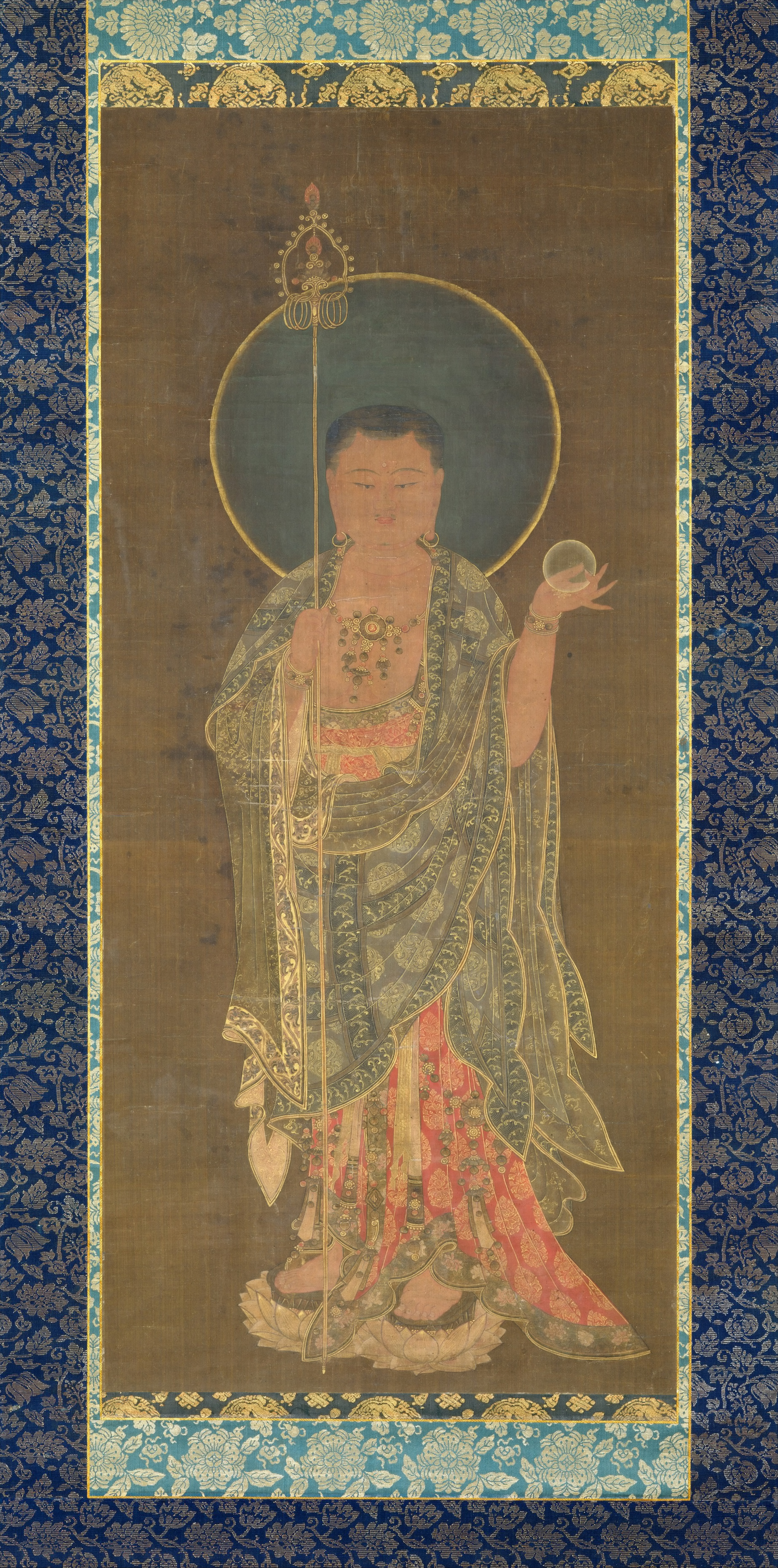 Kshitigarbha (Chijang), Goryeo dynasty (918–1392), Hanging scroll; gold and color on silk; 84.5 x 36.8 cm, Metropolitan Museum of Art